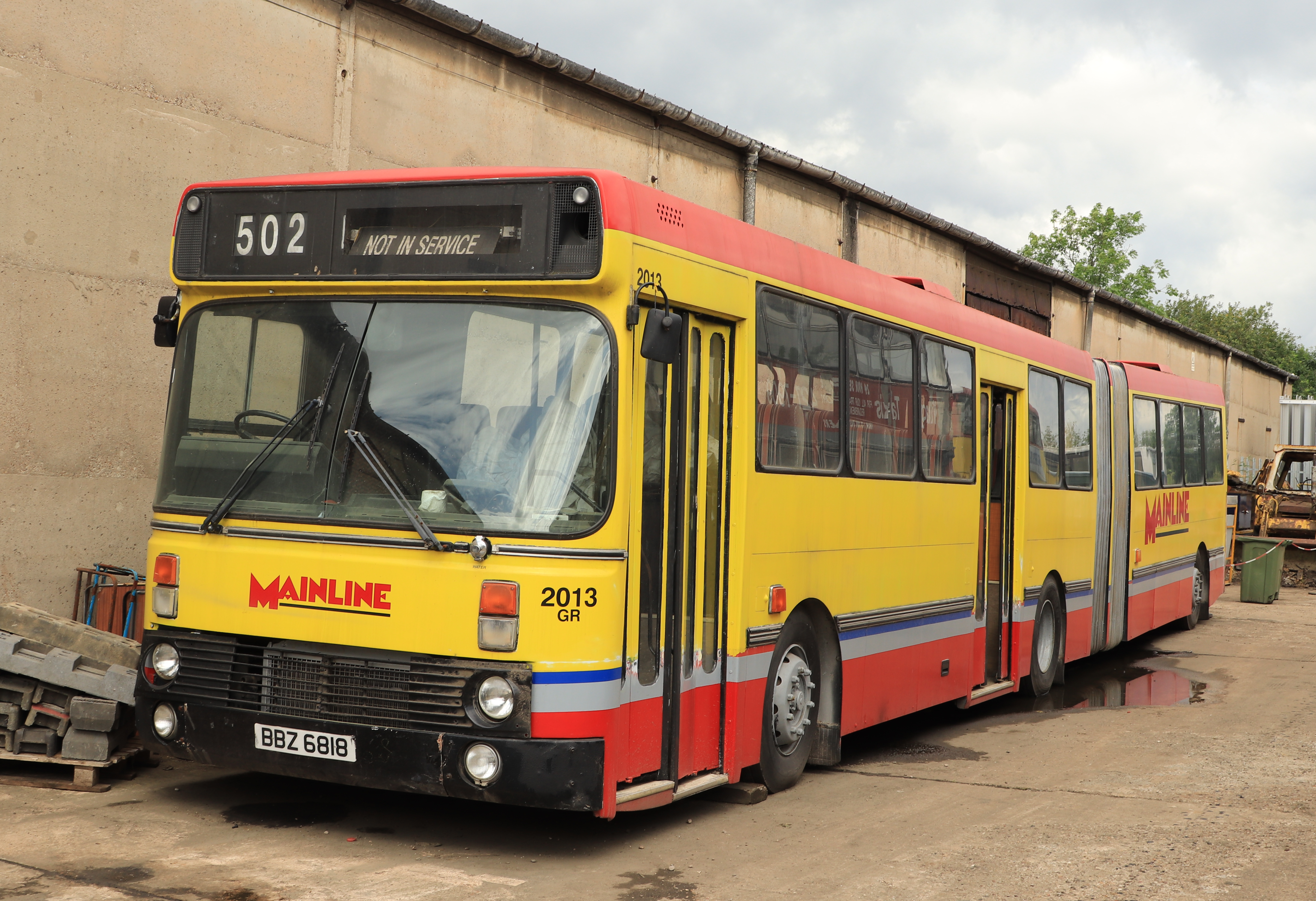 BBZ 6818, new as C113 HDT, is a Leyland DAB articulated bus